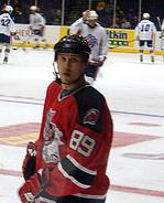 Cropped photo of Alexander Mogilny playing for the Albany River Rats